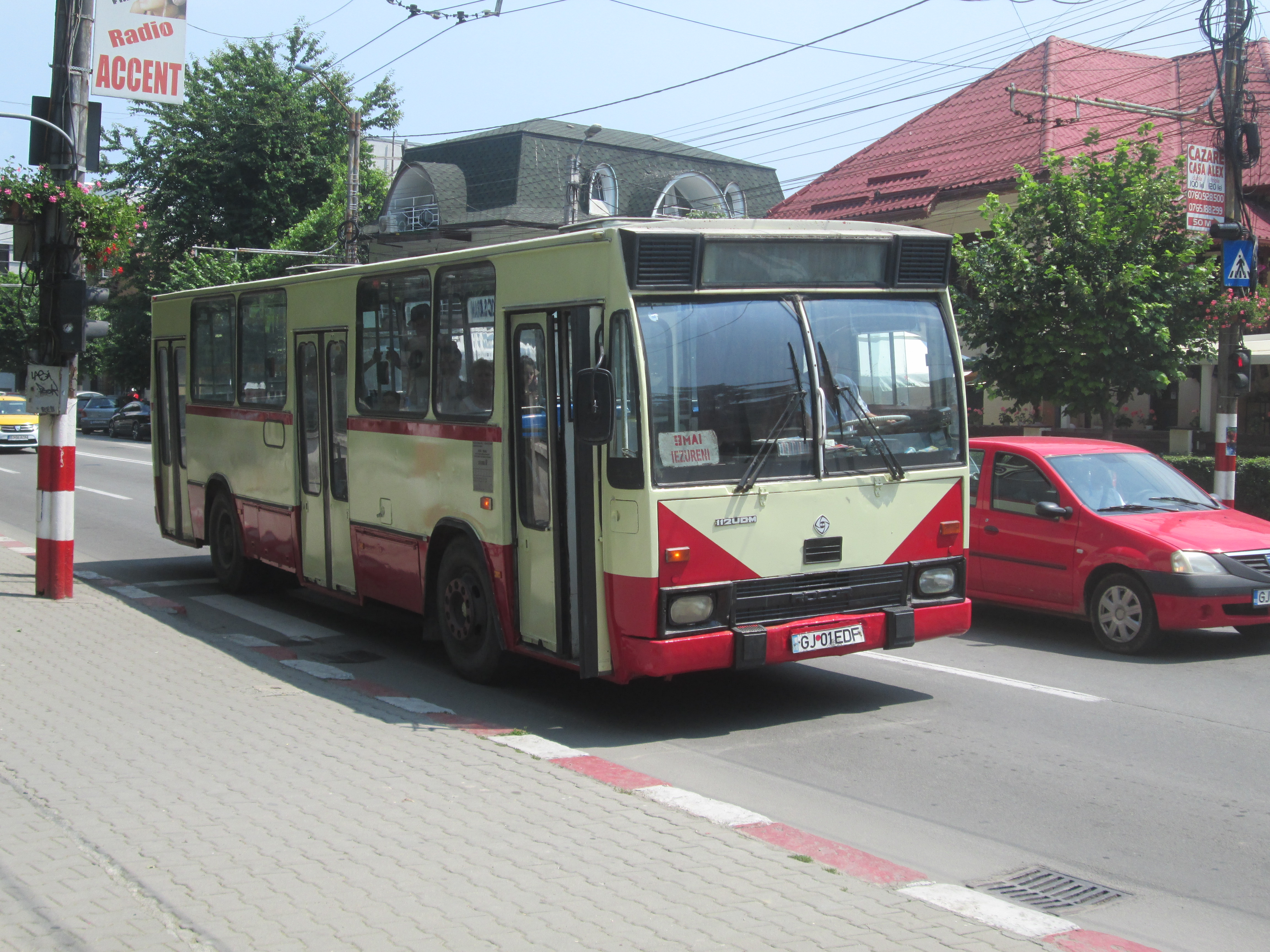 DAC 112 UDM bus in Târgu Jiu, one of the last cities to use this model as of 2019.